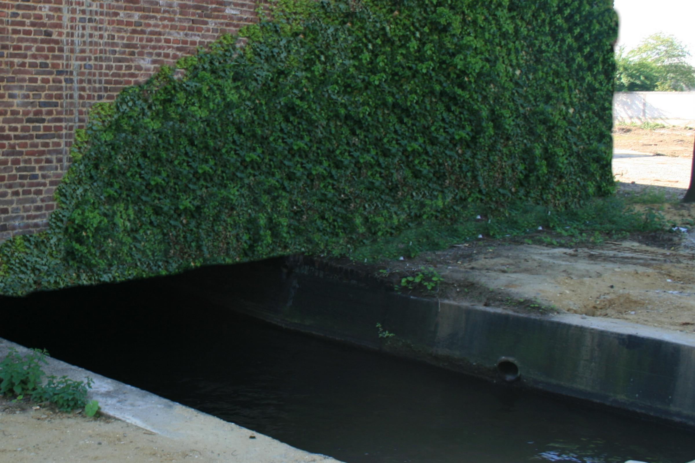 Cultural heritage monument No. 1/066e in Düren